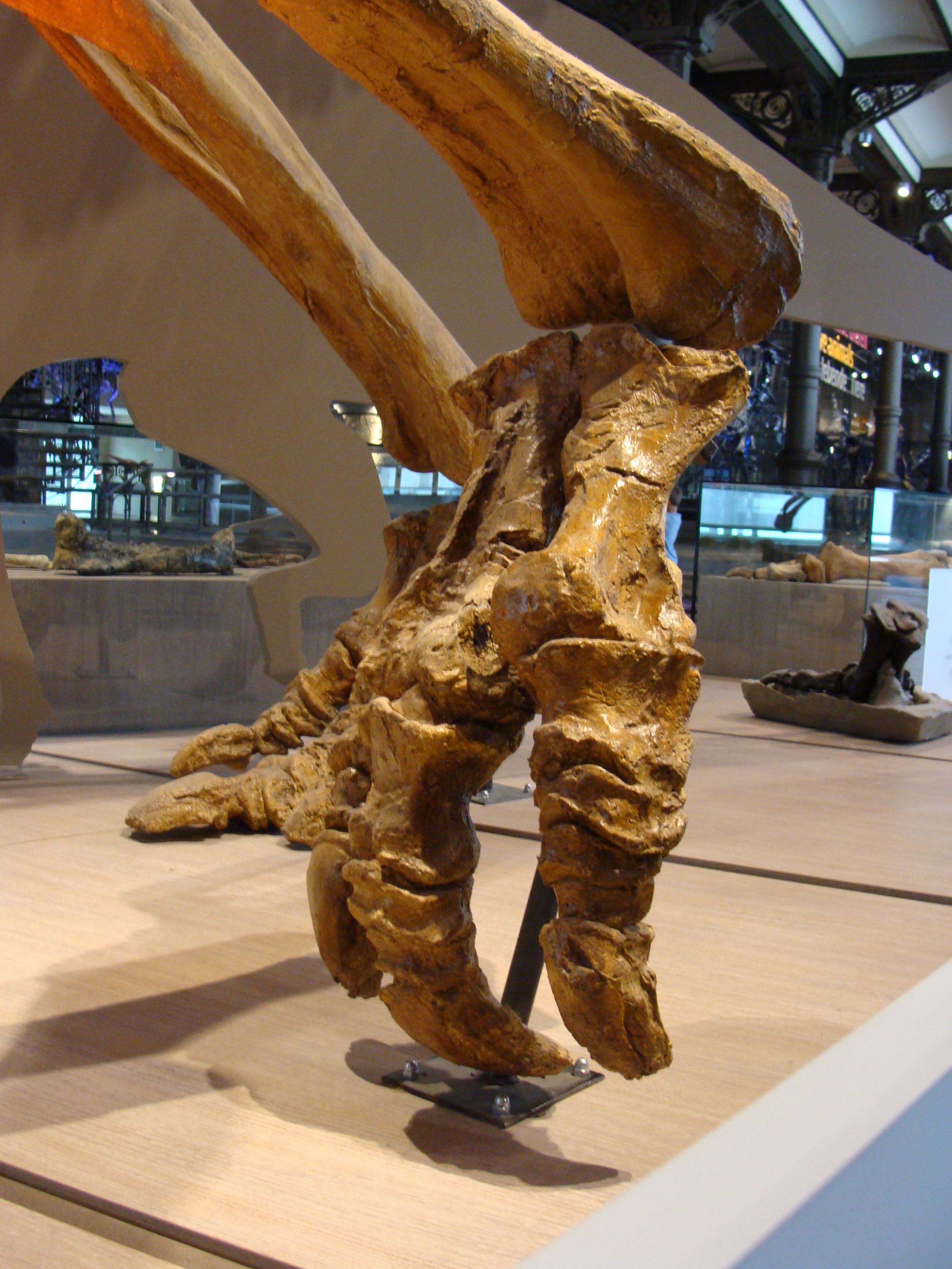 Olorotitan foot detail in the Royal Belgian Institute of Natural Sciences.